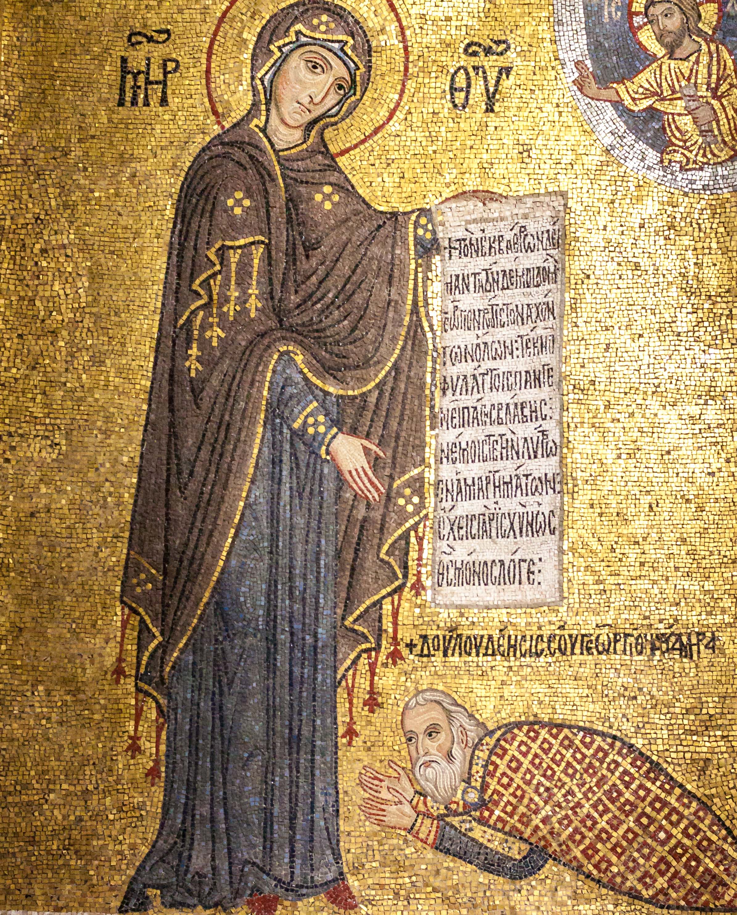 George of Antioch and Holy Virgin